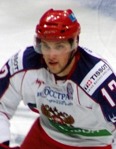 Russian ice hockey player Gennady Churilov at 2010 First Channel Cup in Moscow